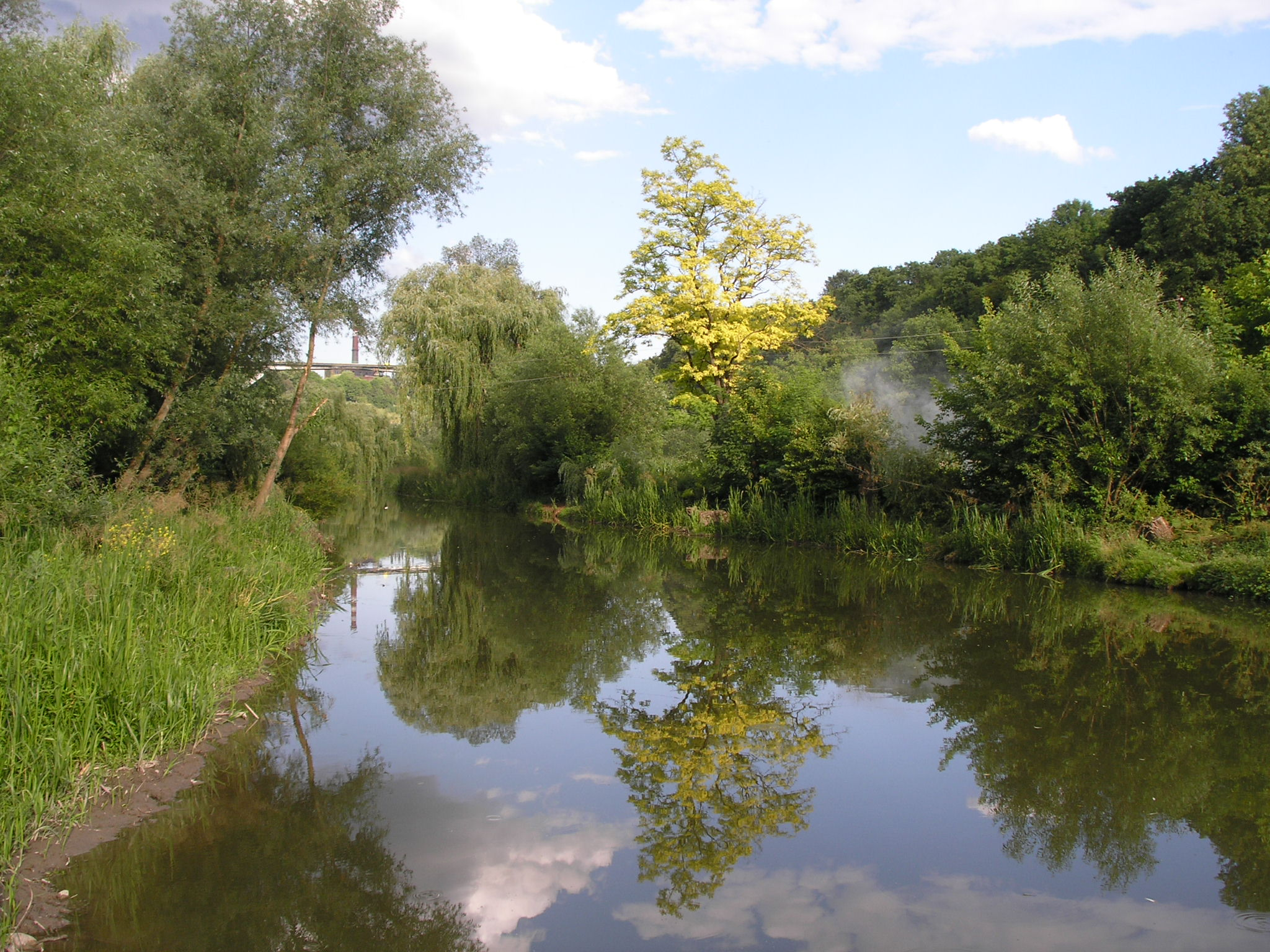 The Smotrych River flows in western Ukraine.